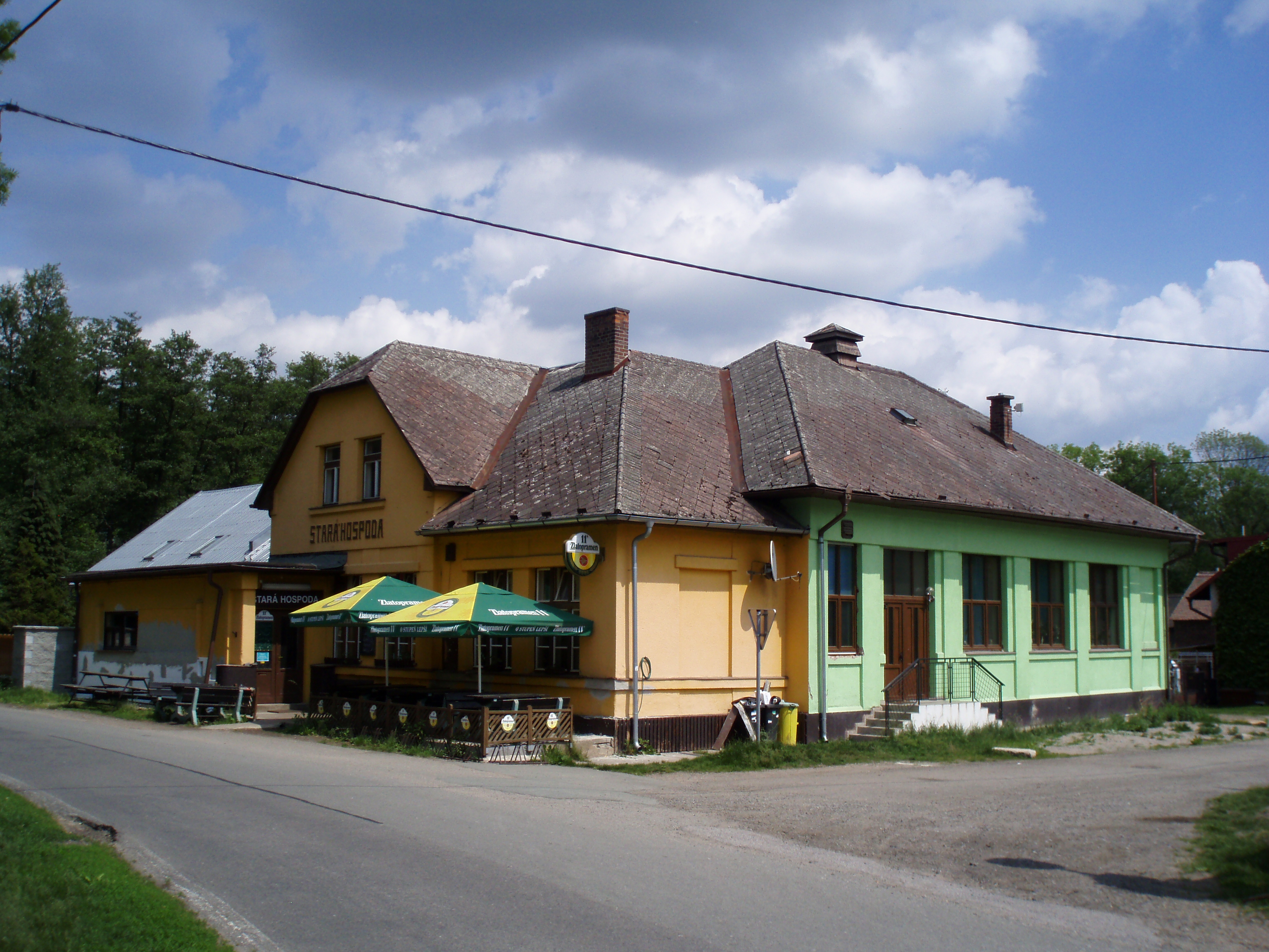 Restaurant "Stará hospoda" v Březhradě (Hradec Králové, Czechia)